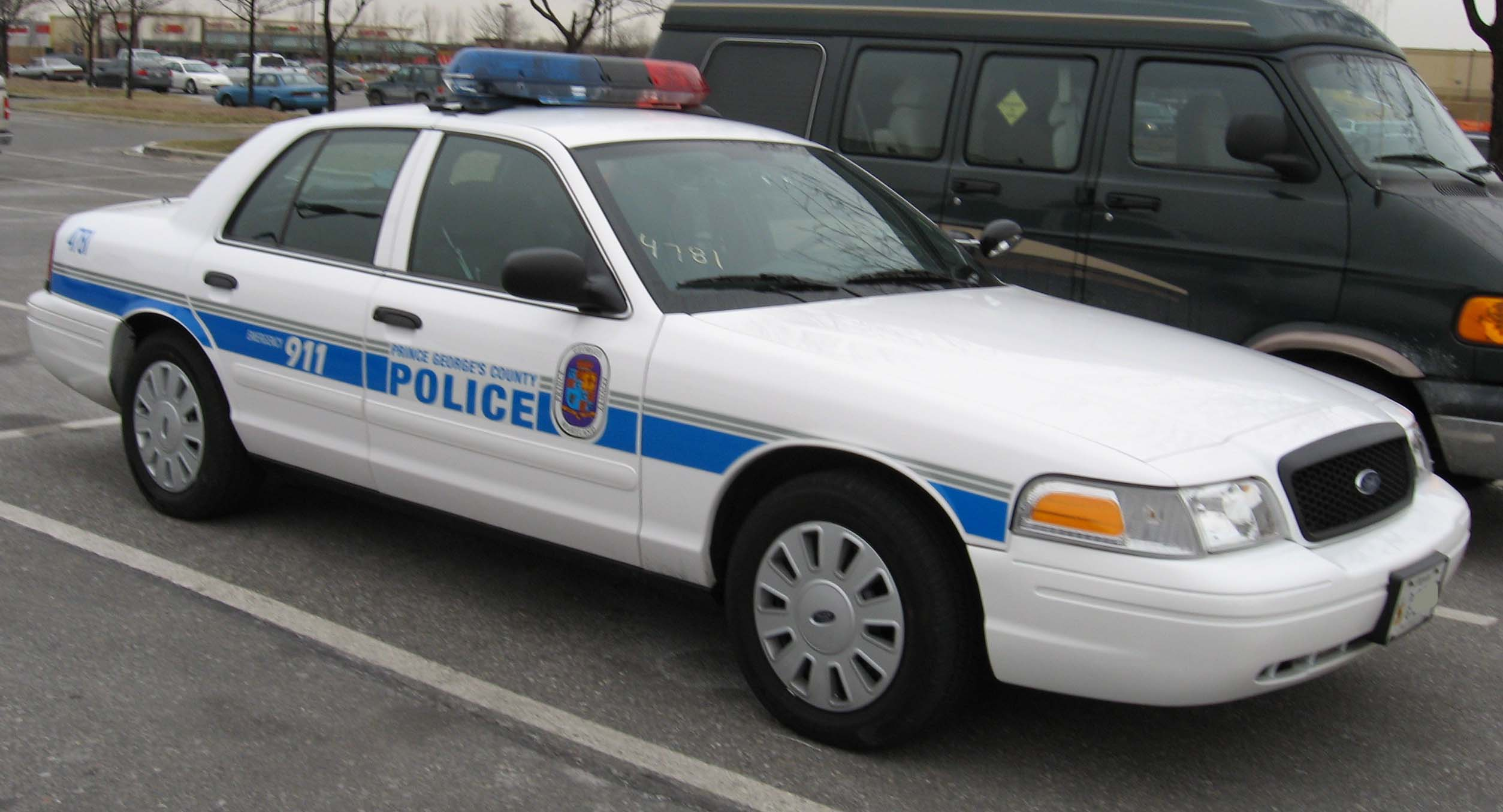 2006-2007 Ford Crown Victoria police car photographed in USA.